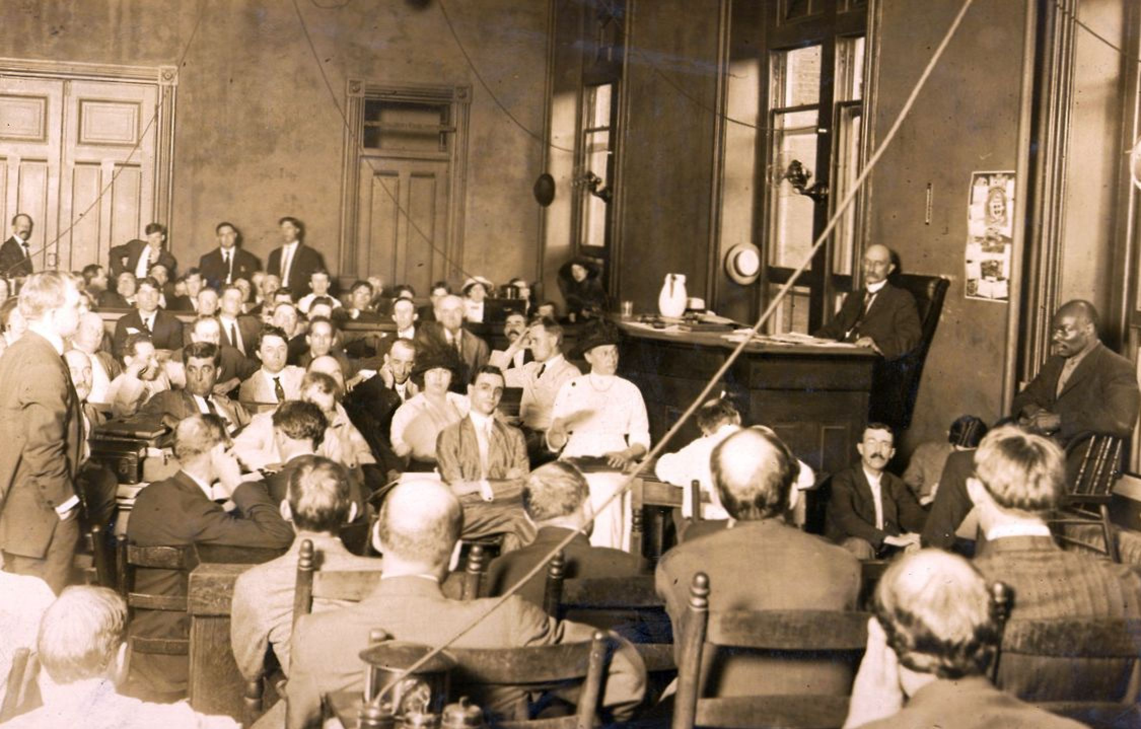 Photo of the trial of Leo Frank, shot on July 28, 1913. Prosecutor Hugh Dorsey, standing at left, is examining witness Newt Lee, at right. Leo Frank who is seated in the centre, staring at the camera. The jury are in the foreground with their backs to the camera. Also in the picture are Lucille Frank, Leo Frank's wife, and Mrs Ray Frank, his mother. )